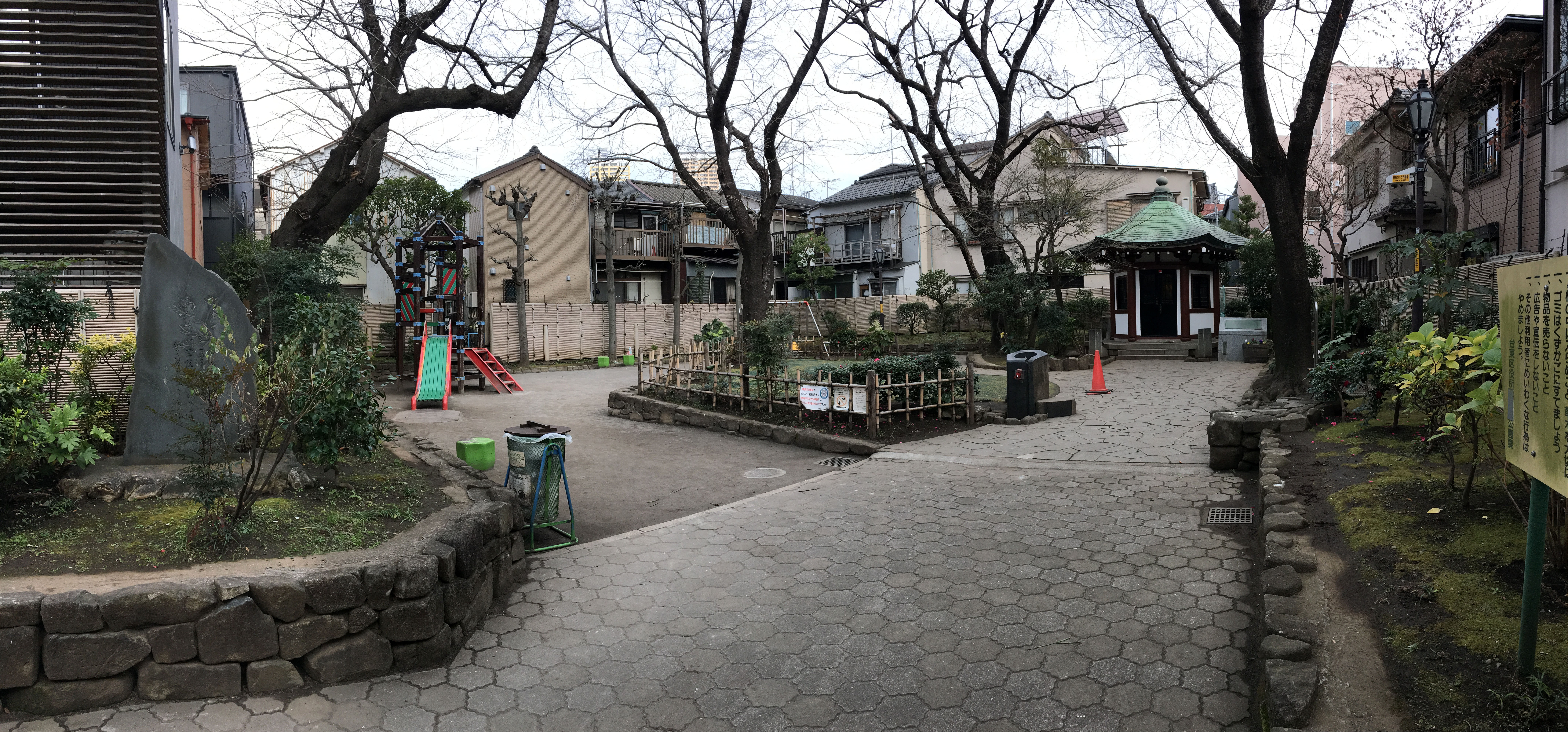 Okakura Tenshin Memorial Garden